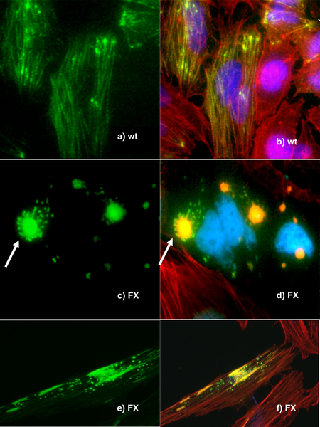 Expression of Human Wild-Type and P239S Mutant Palladin Constructs in HeLa Cells (A and B) When HeLa cells were transfected with the human wild-type (WT) palladin construct, filamentous bundles (A) clearly colocalized with the F-actin (B). (C and D) In contrast, expression of the mutant P239S Family X (FX) construct resulted in large palladin flower-shaped structures (arrows) in which the center, but not the petals of the flower, colocalizes with actin. (E and F) Expression of Family X constructs can also cause small cytoplasmic flecks of palladin that do not colocalize with actin. HeLa cells overexpressing the empty GFP vector displayed uniform distribution of GFP in the whole cells that did not colocalize with F-actin (unpublished data). Green, GFP-palladin; red, F-actin; blue, nucleus; yellow, colocalized palladin and F-actin. All figures are at 100× magnification.